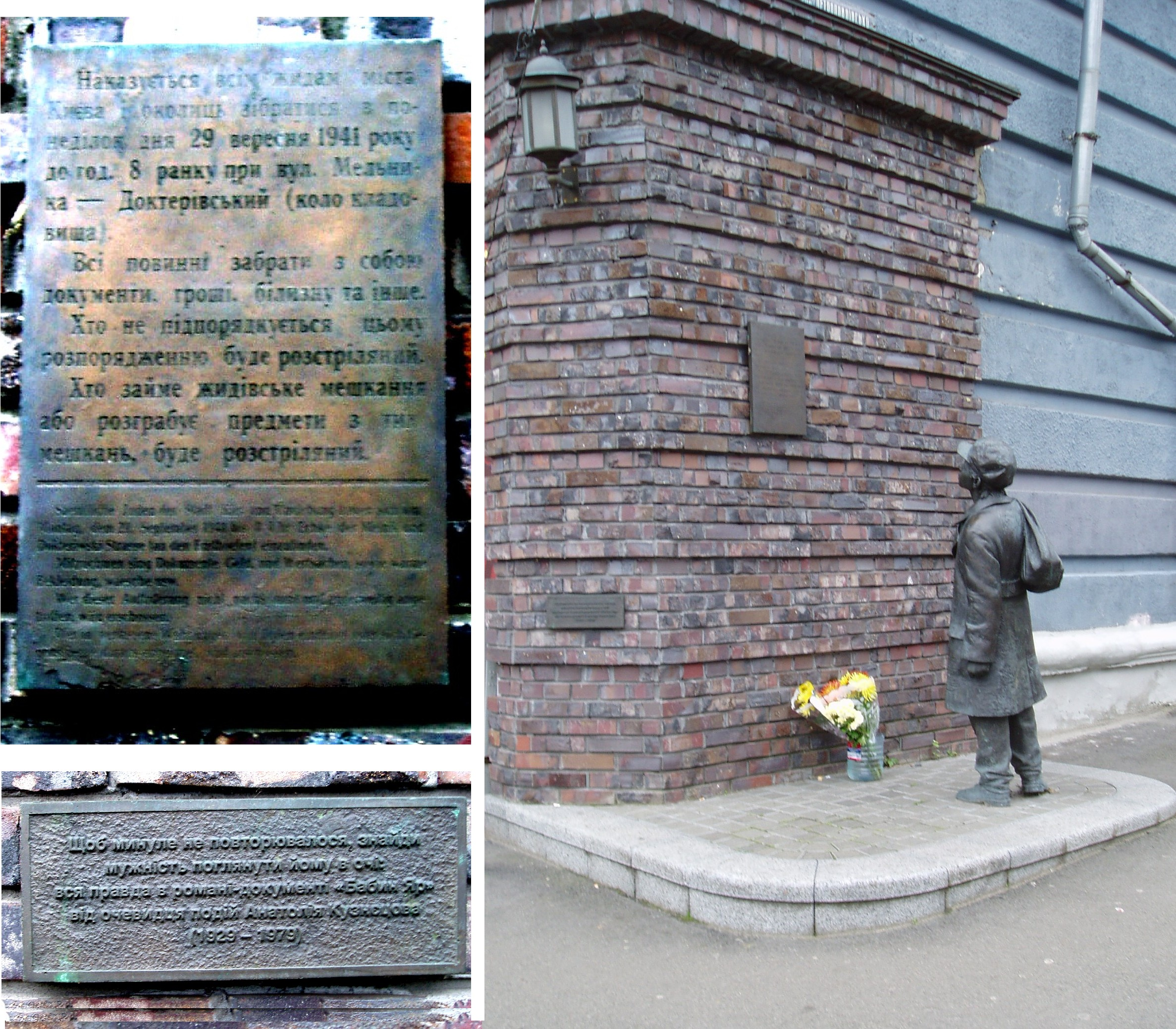 Monument to the writer Anatoly Kuznetsov (memorial to the victims of Babyn Yar in Kiev at the corner of Kyrylivska and Petropavlivska streets). Sculptor Volodymyr Zhuravel'. Bronze, 2009